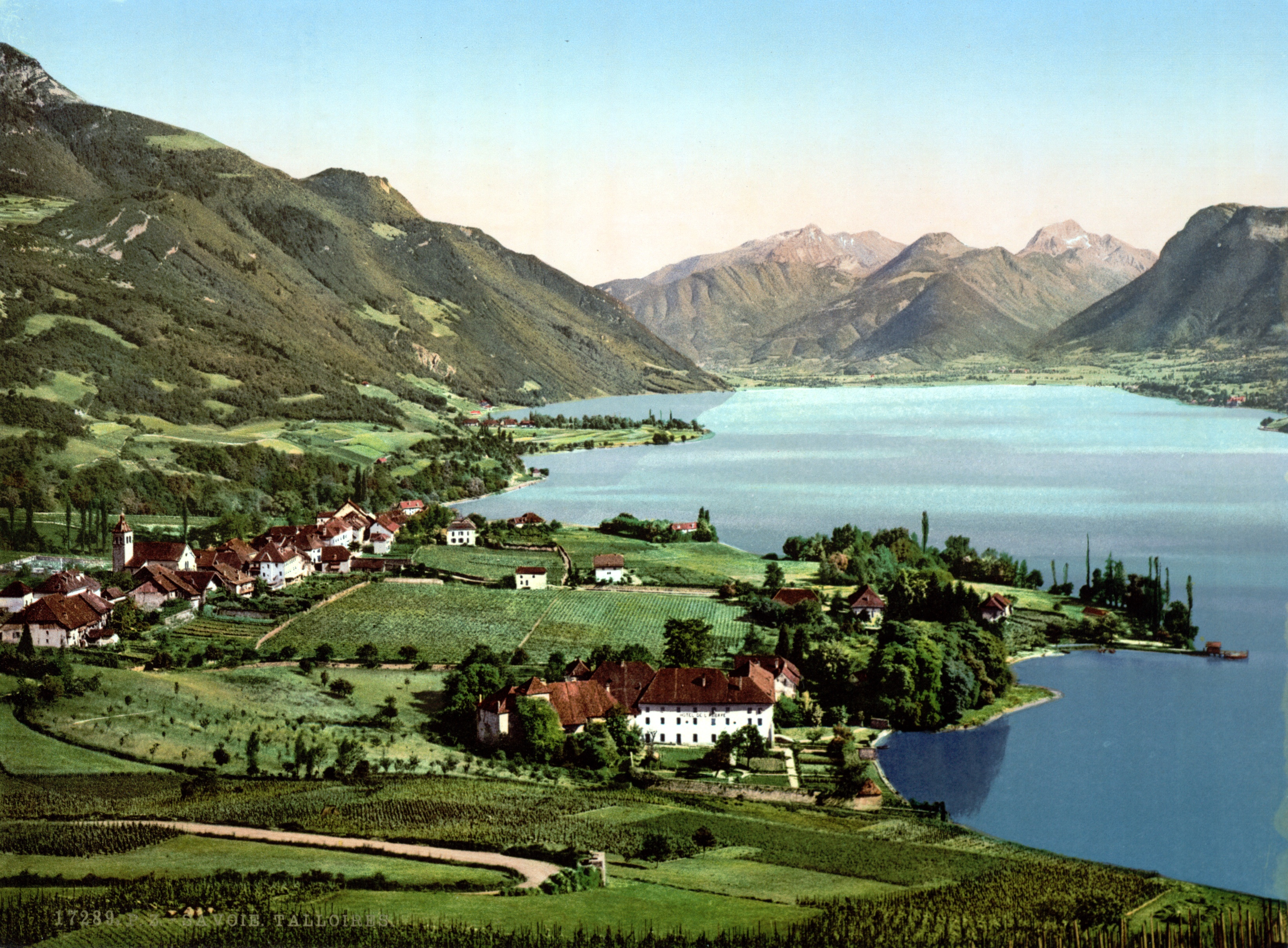 Talloires, Haute-Savoie, France.